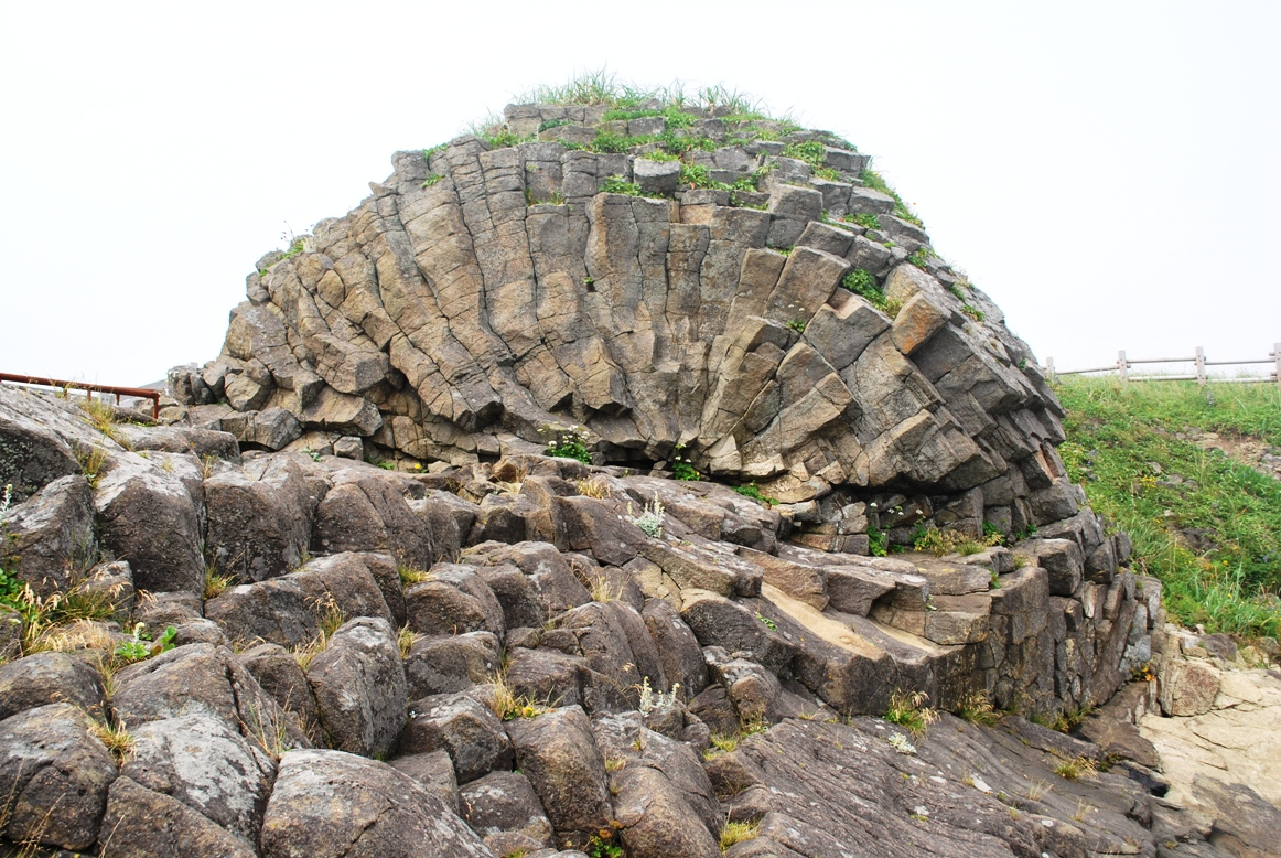 Nemuro kurumaishi at Nemuro city